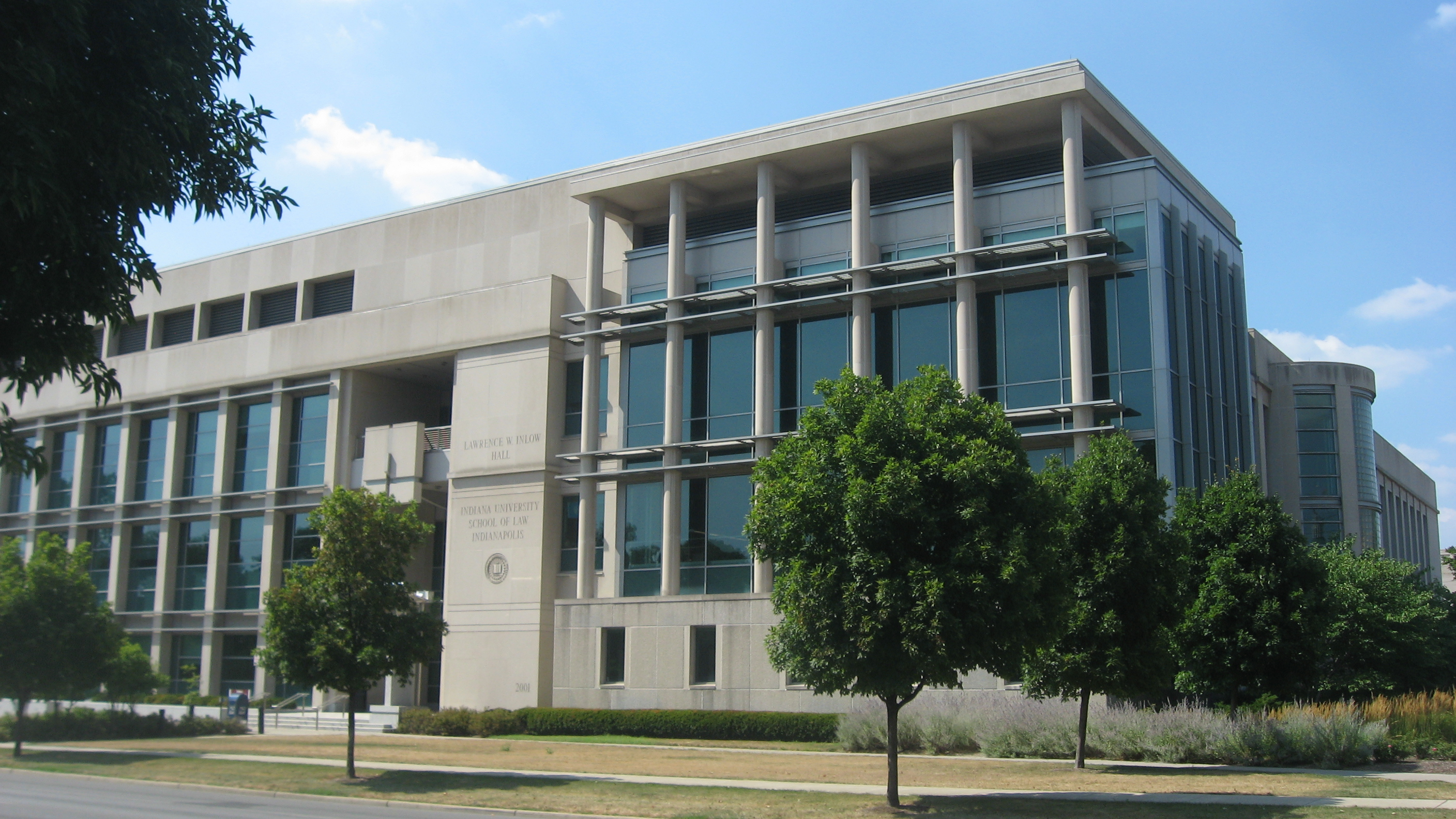 Front and side of Lawrence W. Inlow Hall on the campus of IUPUI in Indianapolis, Indiana, United States. Built in 2001, it occupies the site of the Caleb Blood Smith Historic Site, which was listed on the National Register of Historic Places before it was destroyed.